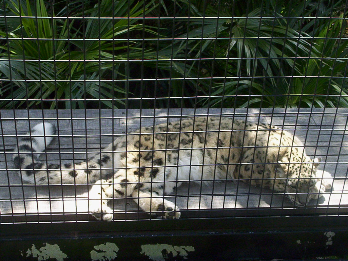 Snow Leopard at Canberra Zoo.